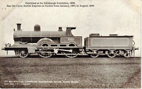 London and North Western Railway ‘Teutonic’ class 2-2-2-0 locomotive No.3105 Jeanie Deans. This image is from a postcard of the early 1900s which is well out of copyright. It is to used in the wikipedia site concerning the fictional character of Jeanie Deans after which this railway engine was named.